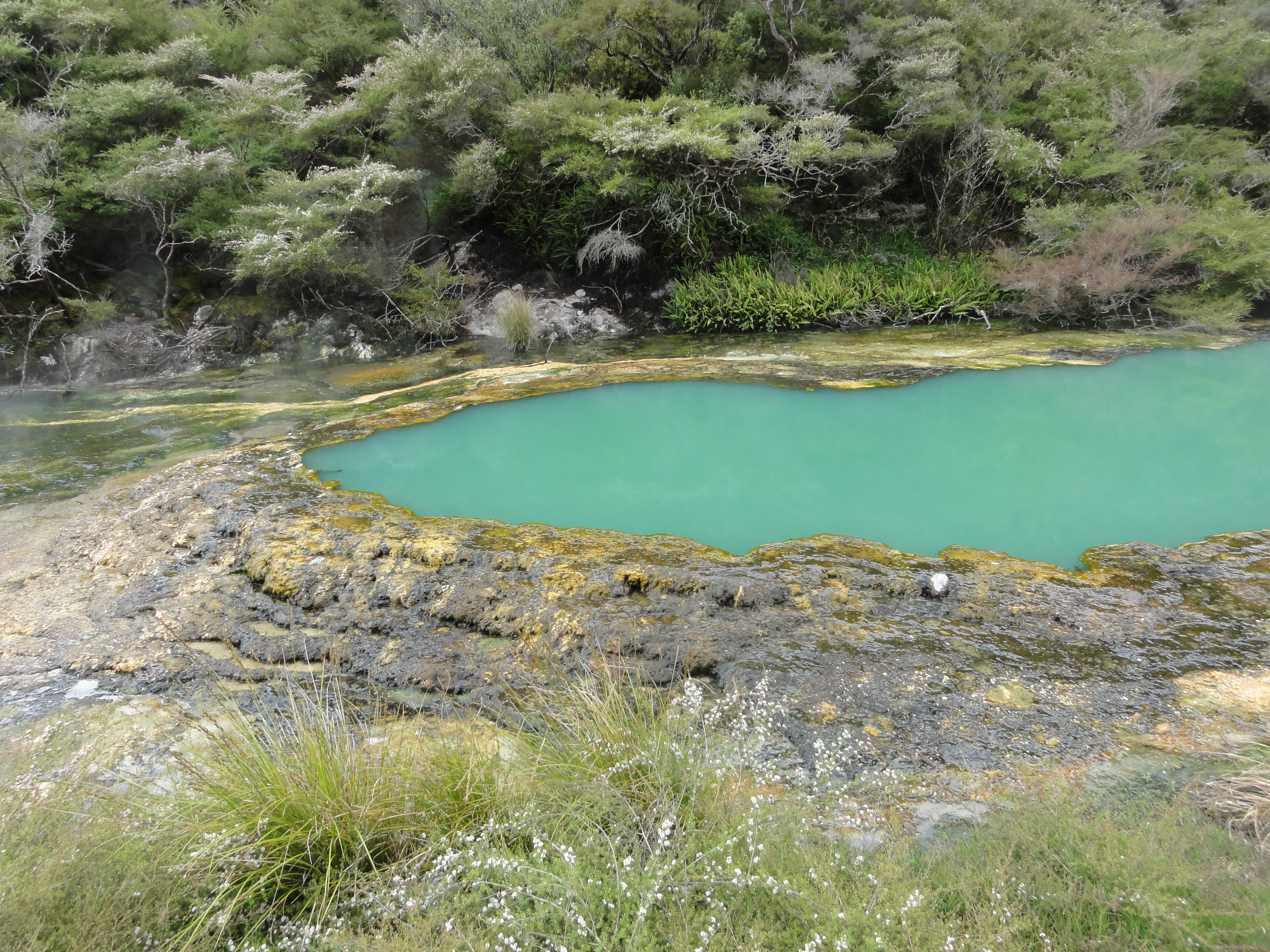 Warbrick terraces, Waimangu Volcanic Valley, Rotorua, New Zealand